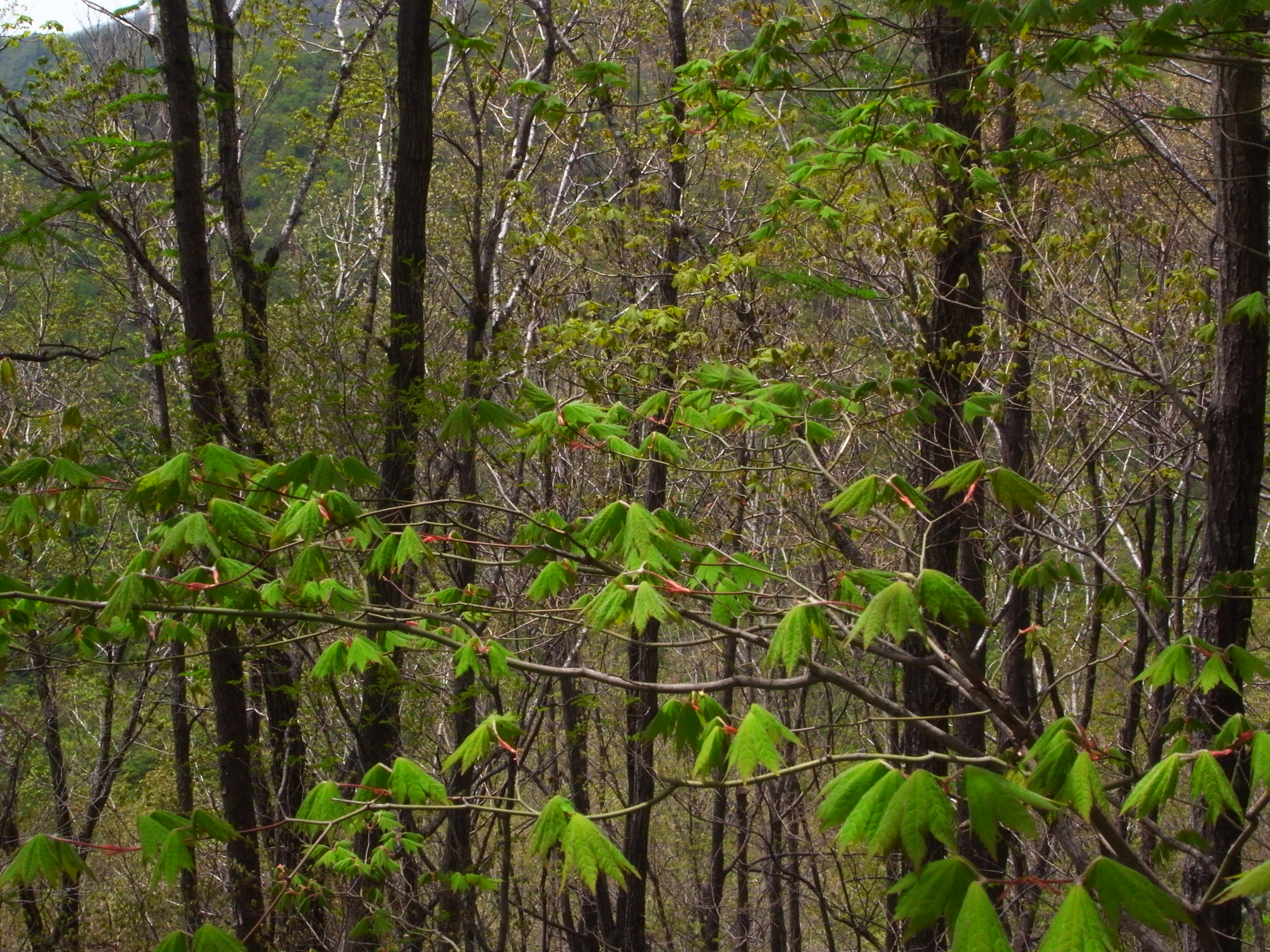 Acer pseudosieboldianum at Jirisan mountain, Korea